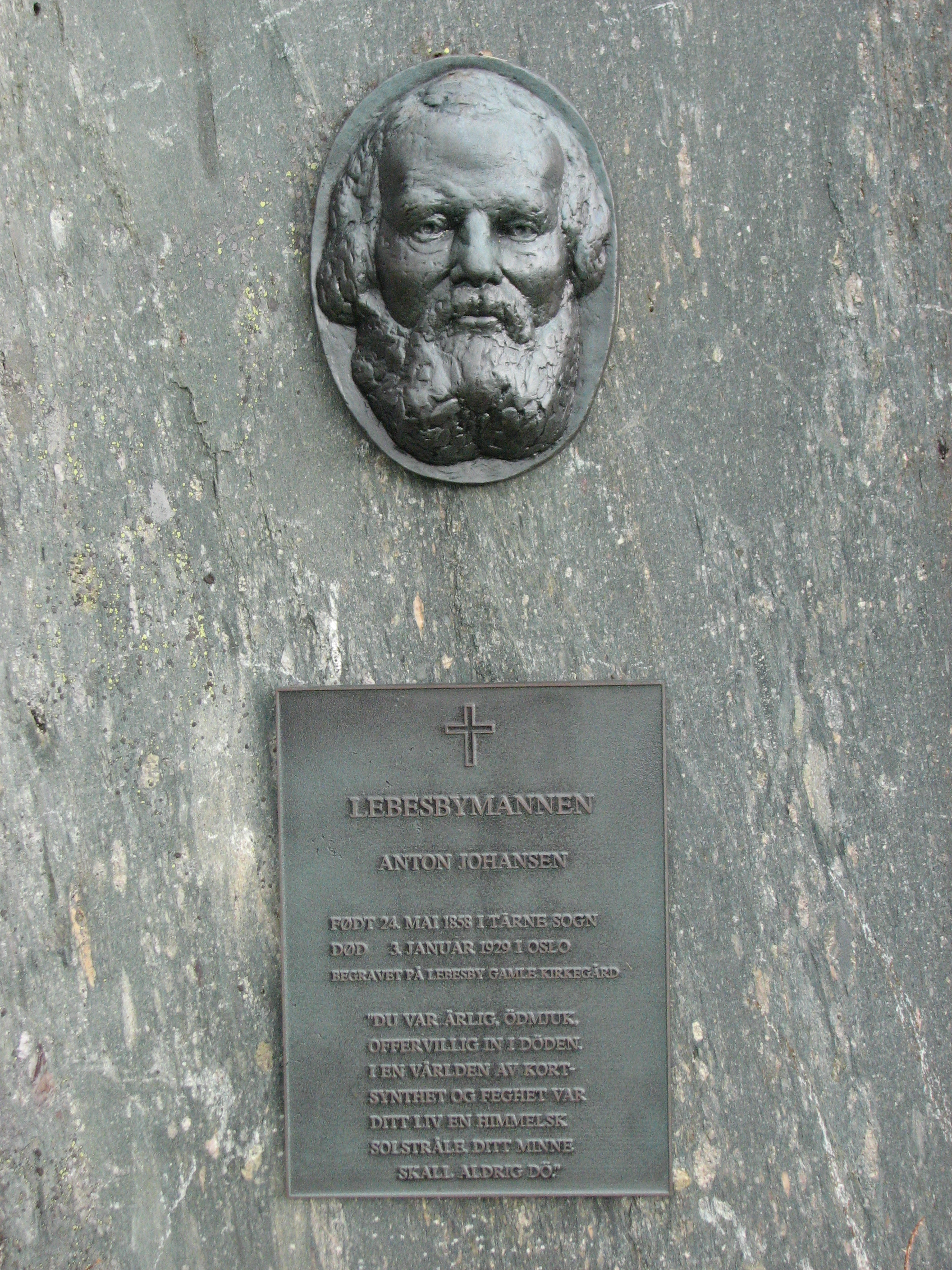 Lebesby church, Lebesby municipality, Norway